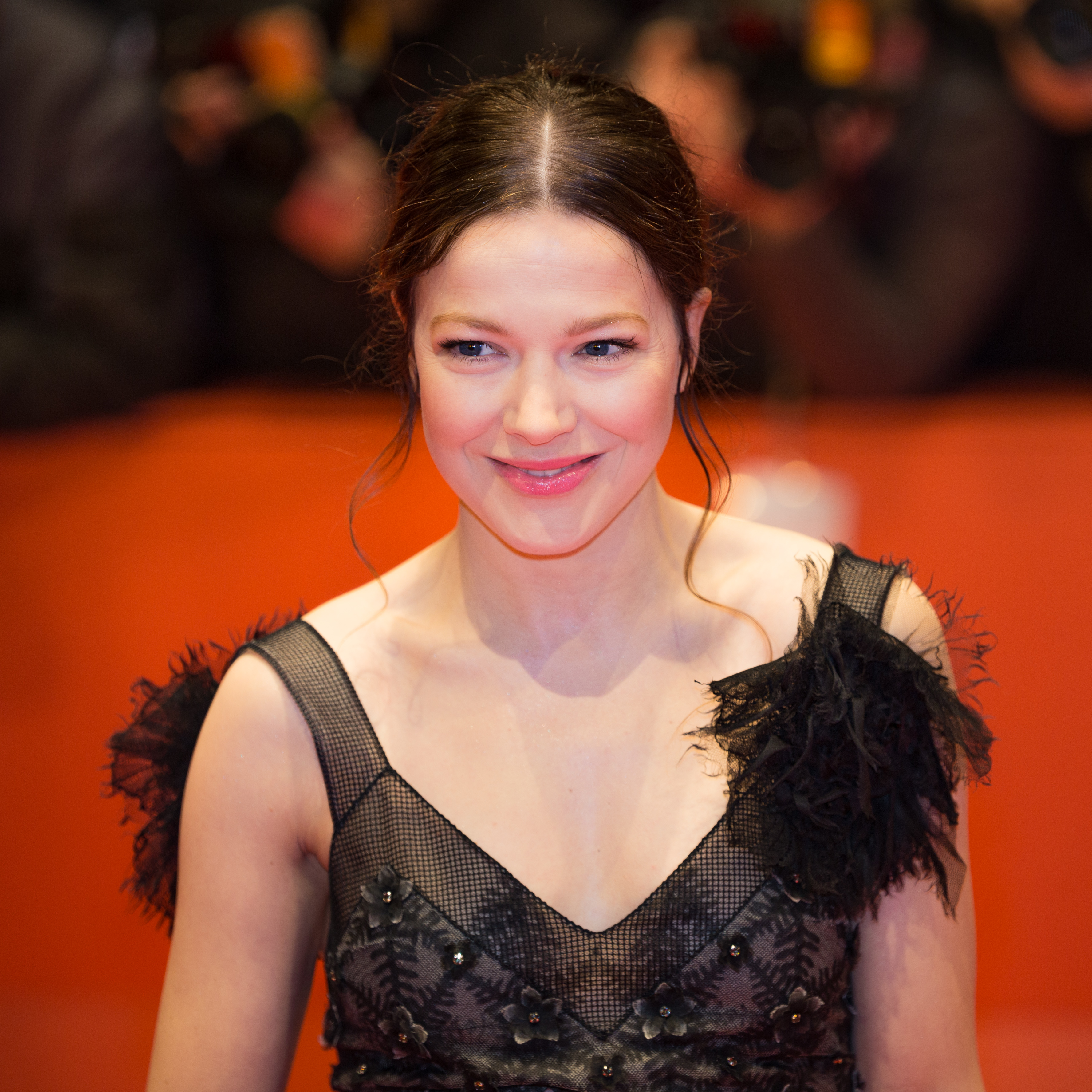 Hannah Herzsprung on the red carpet of the Berlinale 2017 opening film